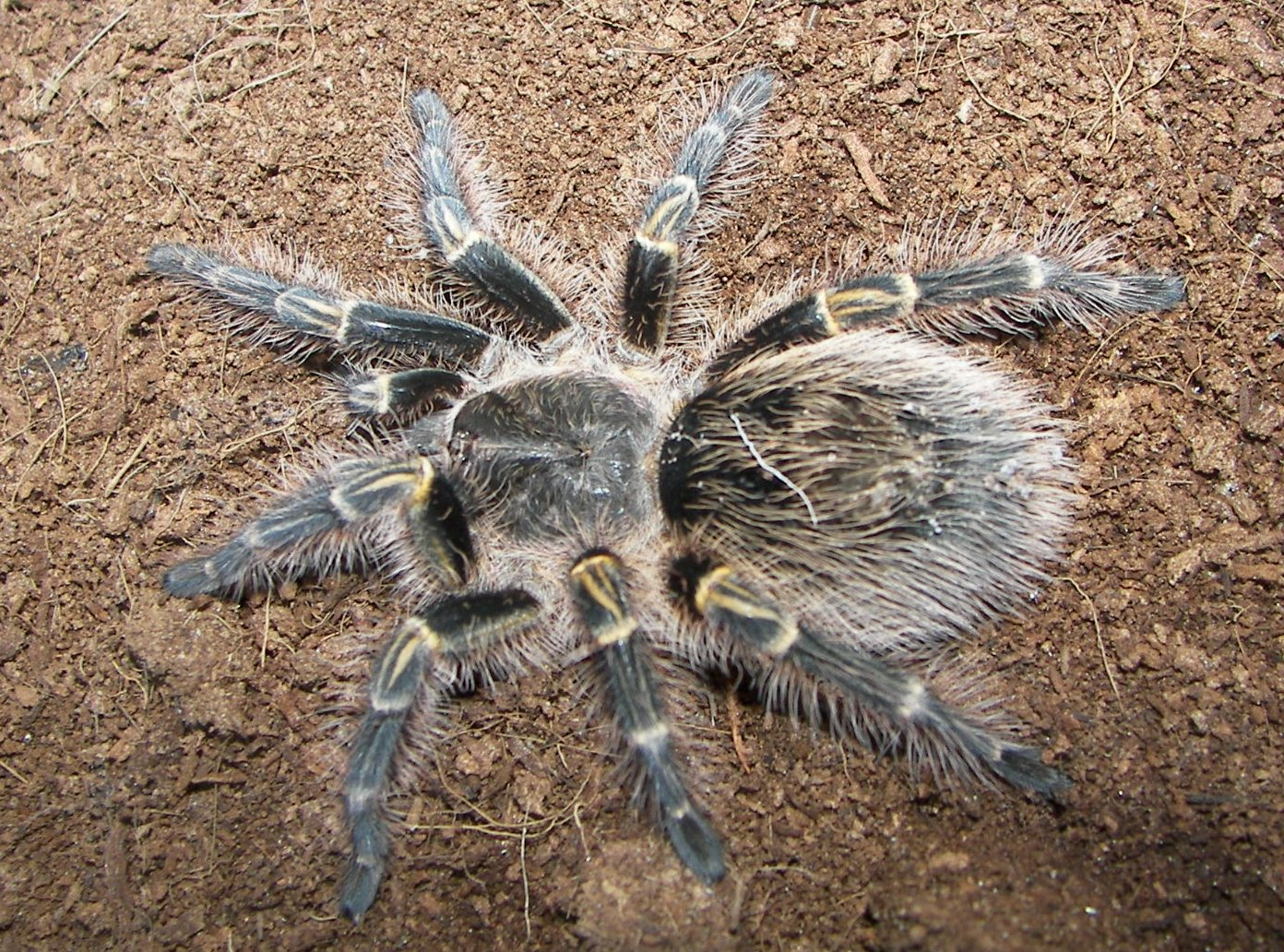 Grammostola aureostriata - Chaco golden stripe